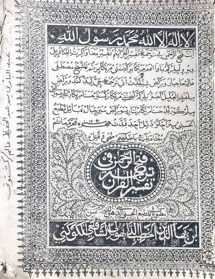 Fathur Rahman Fee Tafseerul Quaran is First Tafseer published in Tamil (Arabic Tamil). This tafseer is written by Sheikh Mustafa , Sri Lanka.